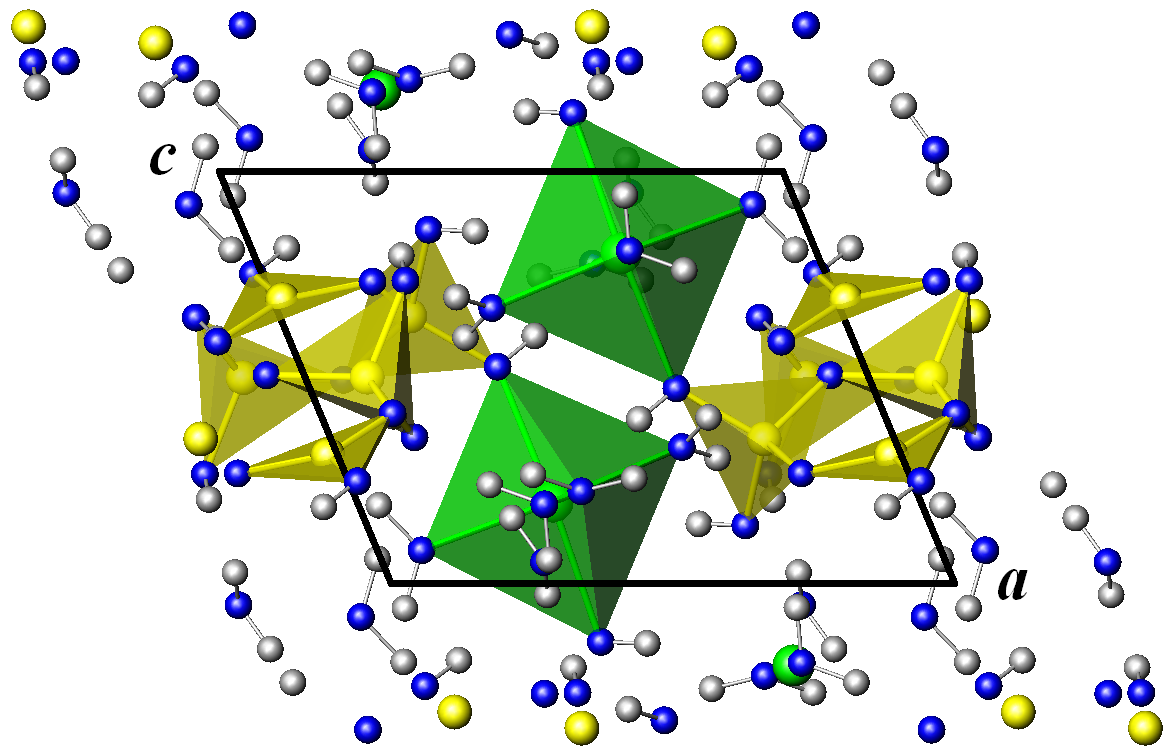 Crystal structure of kurnakovite, MgB3O3(OH)5·5H2O, P-1. Green: magnesium atoms, yellow: boron, blue: oxygen, gray: hydrogen.